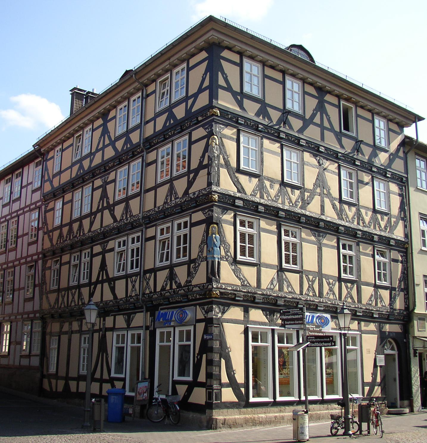 „Raiffeisenhaus“ in Eschwege in Hesse, Germany